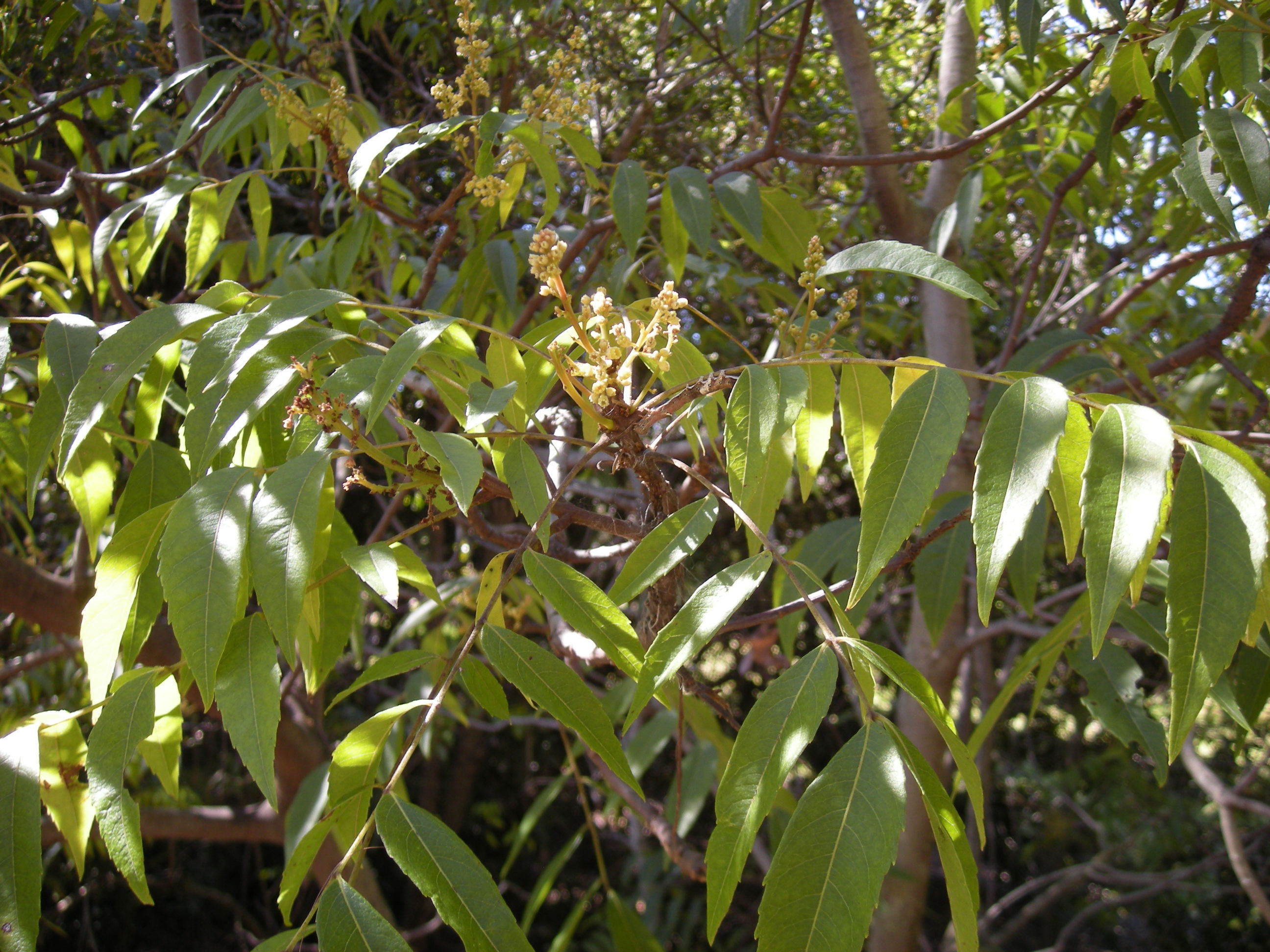 Jagera pseudorhus flowers and foliage